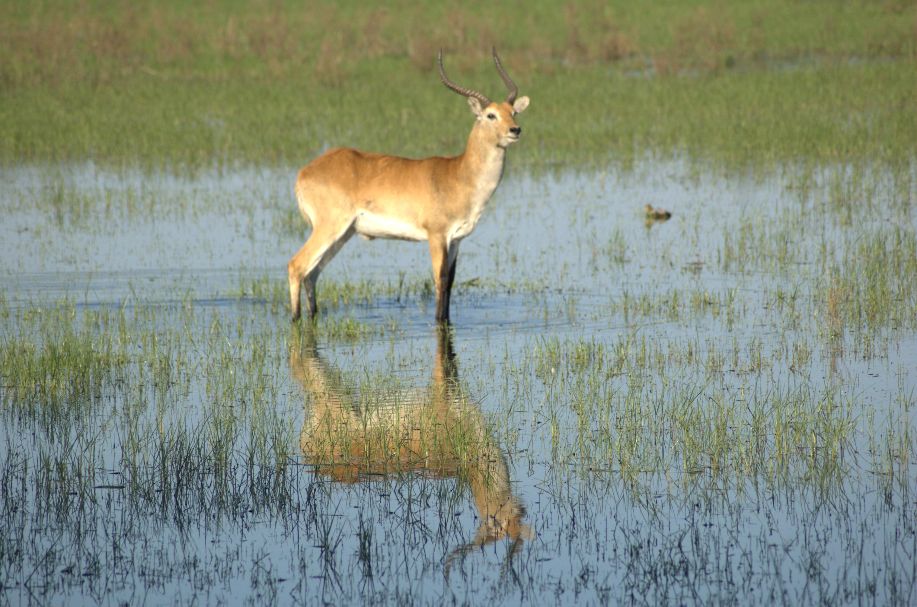 A male Lechwe Antelope and his reflection in Okavango Delta, Botswana. Photographed in June, 2005. The original in Nikon's raw-format is available under a different license. пан Бостон-Київський 19:45, 17 March 2006 (UTC)